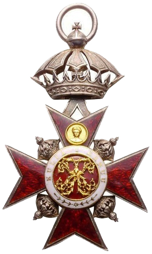 Badge of Commander of the Order of Kapiolani Source: [1] Author: Ian Watts